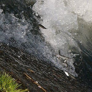 多摩川調布堰を遡るアユ (Plecoglossus altivelis) 撮影日：2004年 4月05日 撮影地：多摩川調布堰（神奈川県川崎市中原区上丸子天神町地先） 撮影者：cory 出典： "Ayu" (Plecoglossus altivelis), jumping up go row up a dam. Date: 2004-04-05 (Apr 05, 2004) Place: Tama River Chofu dam, KamiMaruko-tenjin-cho Nakahara Kawasaki Kanagawa Japan. Author: ISAKA Yoji (cory)